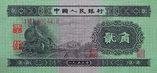 Front of second series 2 jiao renminbi